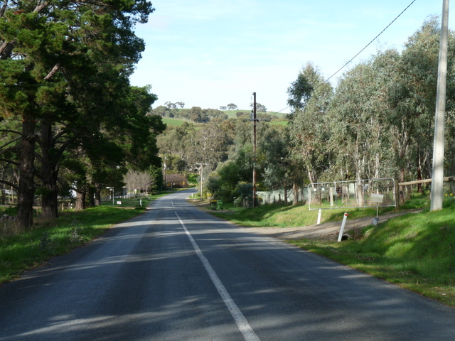 The main street of Harrogate, South Australia looking south